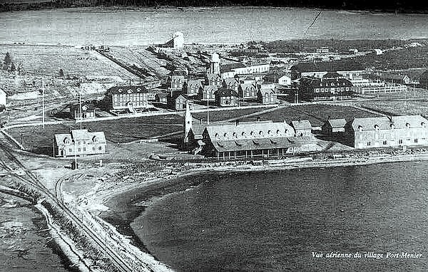 Aerial view of the village of Port-Menier, Anticosti Island, Quebec, Canada.